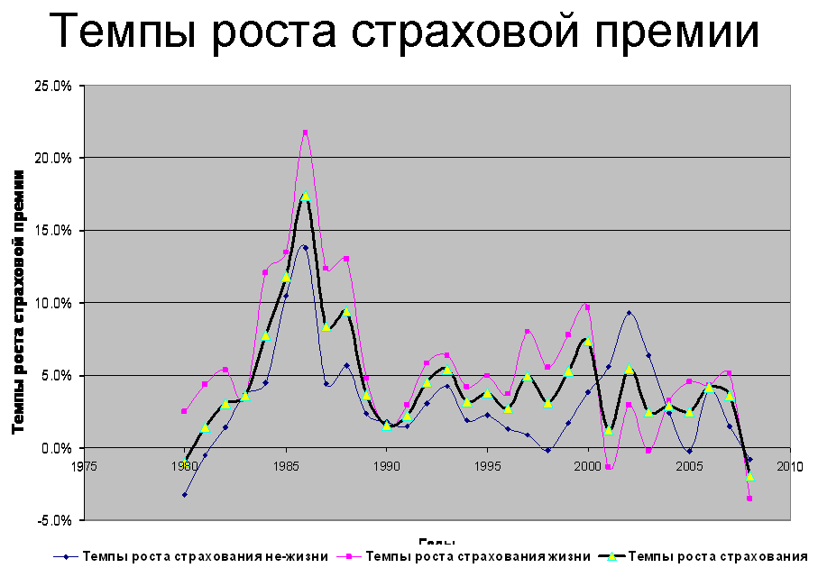 Trends on the World Insurance Market